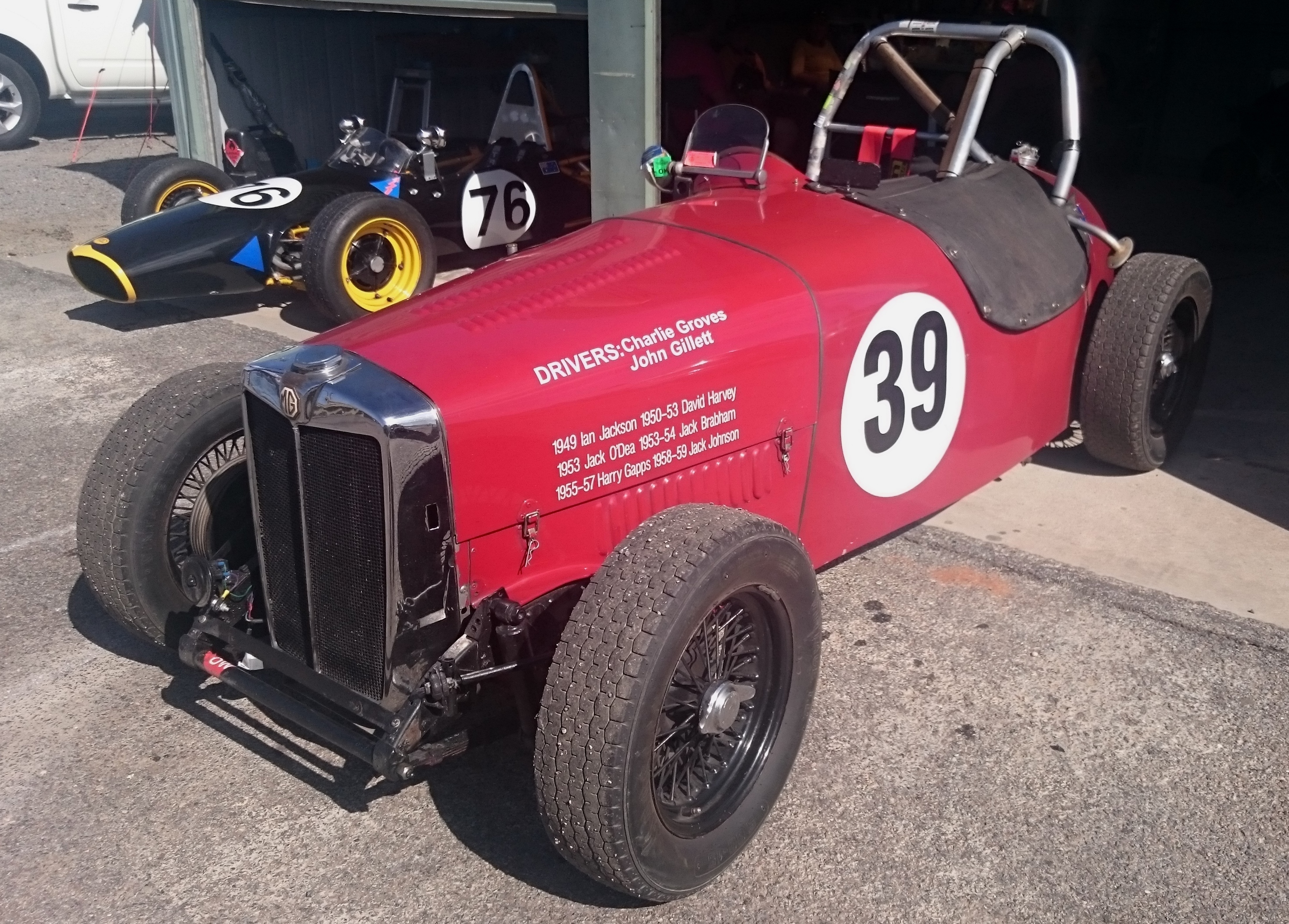 The MG TC Special of John Gillett at Mallala Motor Sport Park on 24 April 2016. David Harvey recorded fourth fastest time and placed second on handicap with this car in the 1950 Australian Grand Prix.